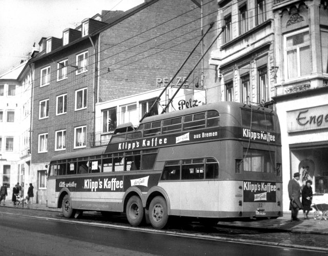 Trolleybus in Aachen